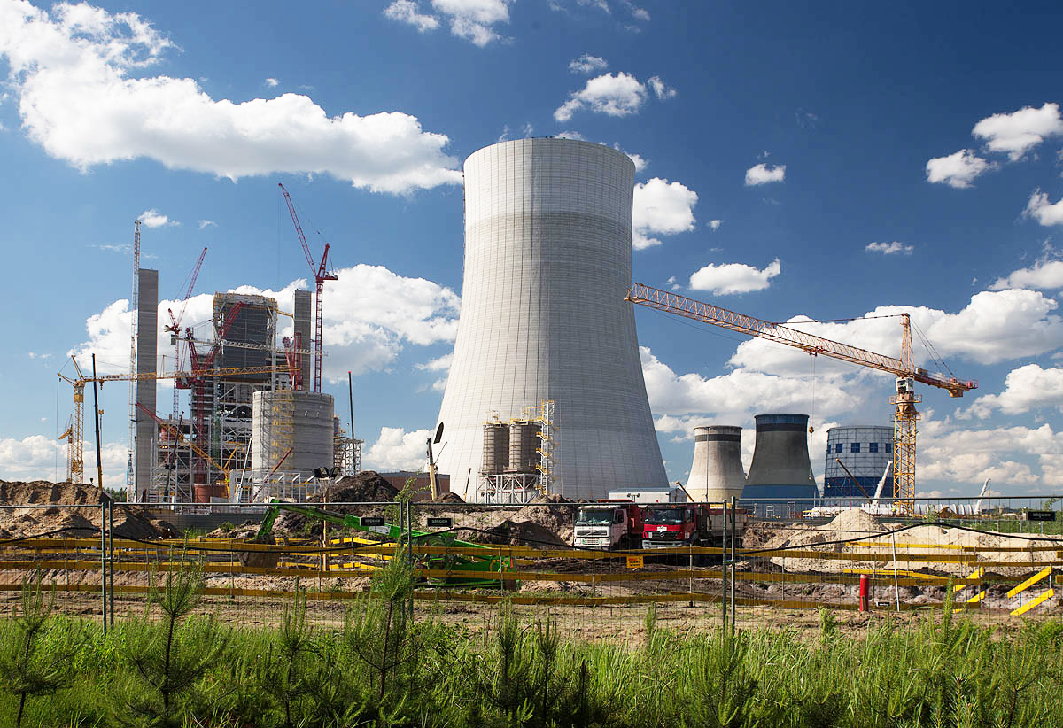 Power plant Jaworzno 2, Poland